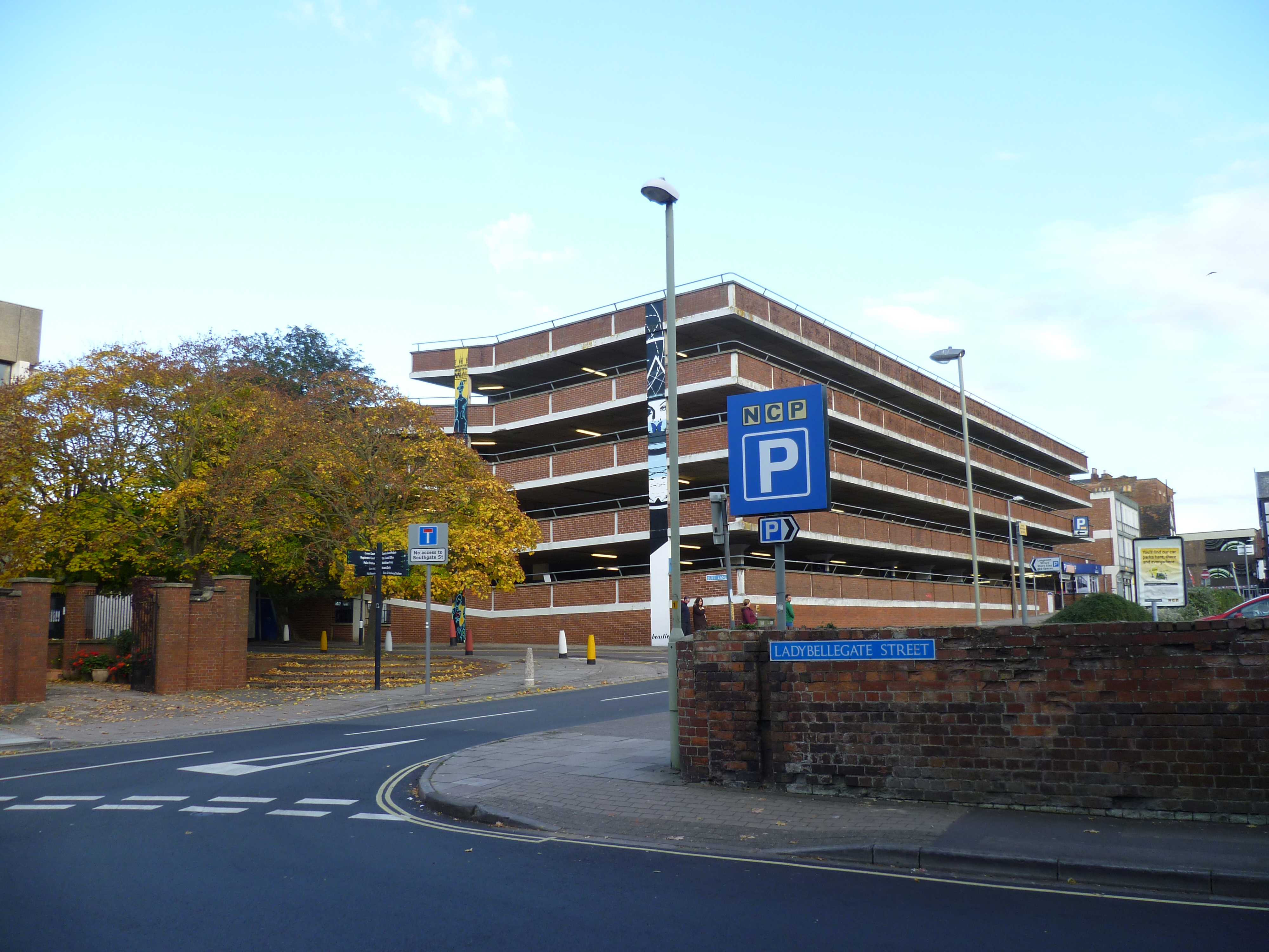 Longsmith Street car park